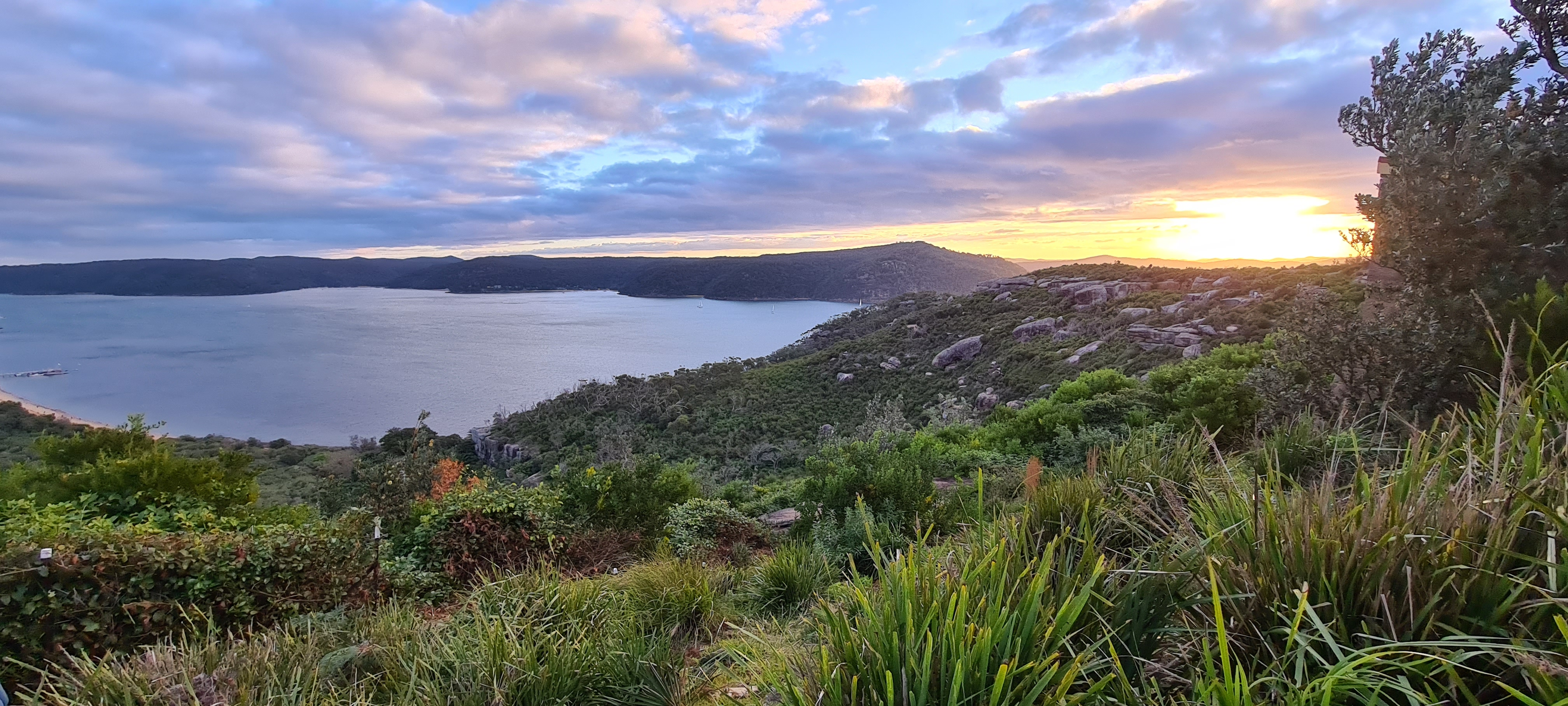 Sunset panorama of Pittwater.